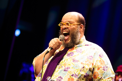 Ed Motta in 2014